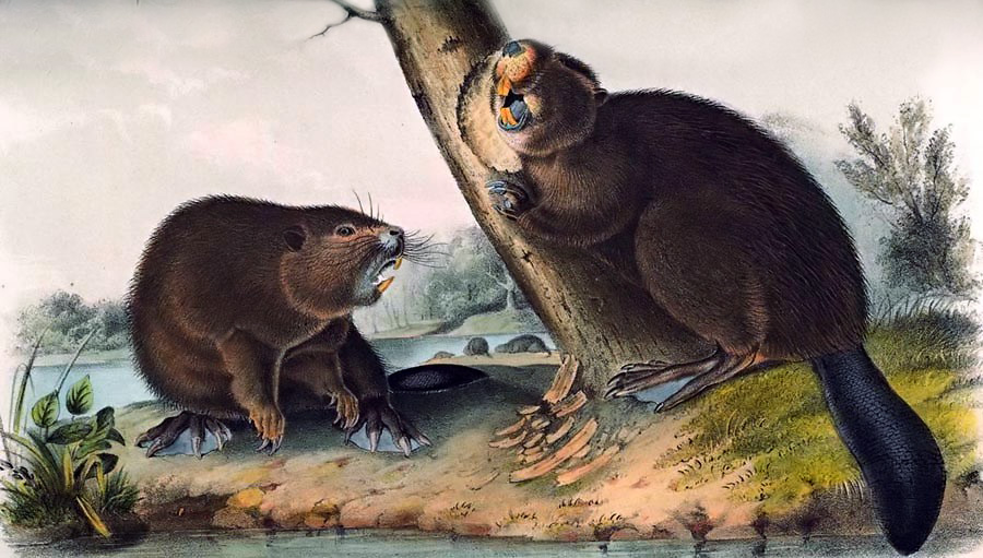 North American Beaver (Castor canadensis), Painting by John James Audubon, 1854